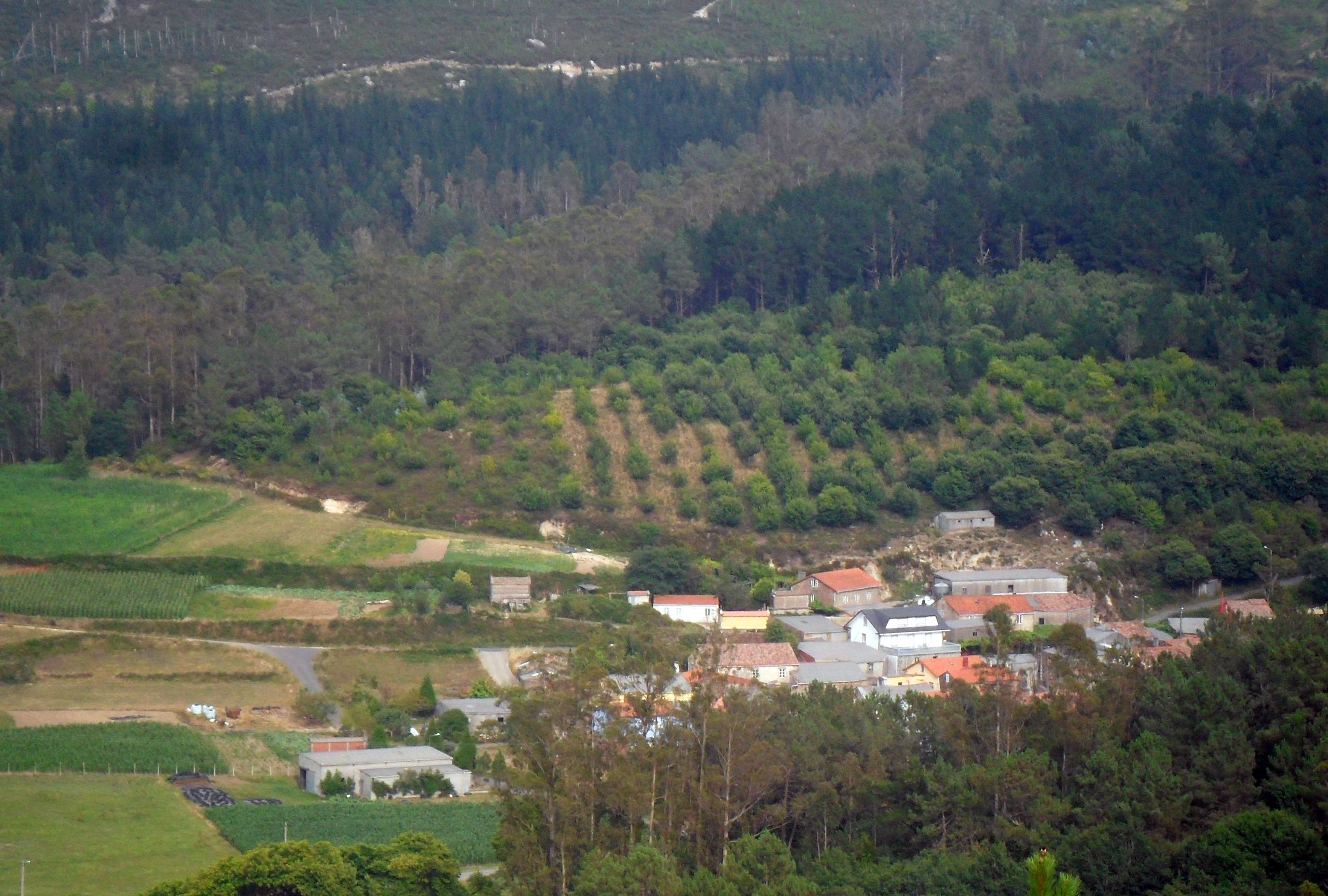 Vilar de Reconco